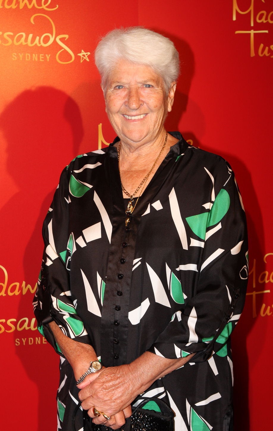 Madame Tussauds Sydney, Australia promo